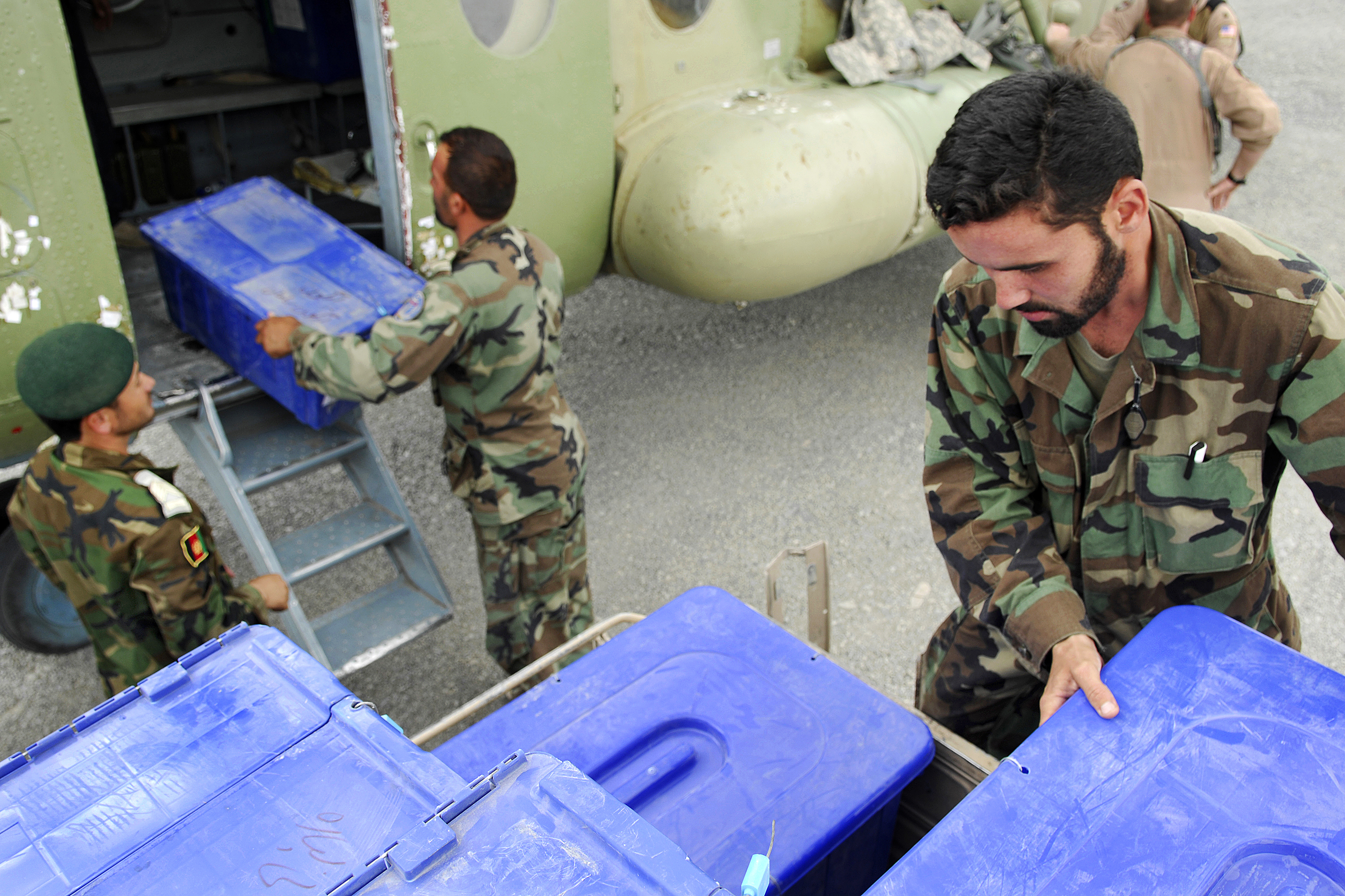 Afghan soldiers unload election ballots from an Afghan Air Corps Mi-17 on Forward Operating Base Orgun-E, Afghanistan, Aug. 16. During a two-day period, U.S. Air Force mentors from the 438th Air Expeditionary Advisor Group and Afghan pilots delivered ballots, polling kits, tables and chairs to remote Afghan locations to support the elections.